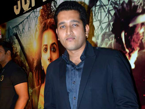 Parambrata Chatterjee, Bengali actor, attending the success party of Kahaani